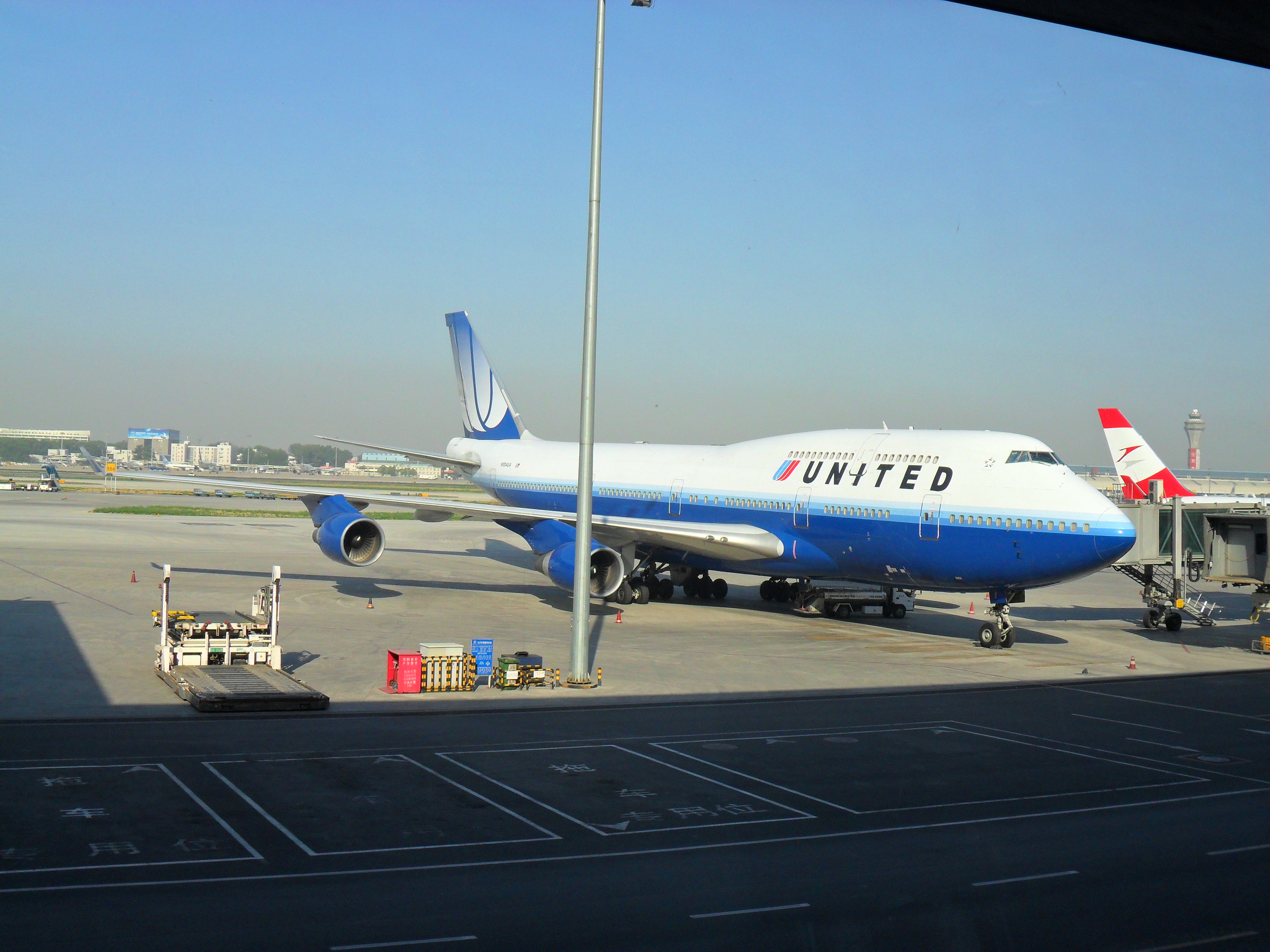 United Airlines Boeing B747-400 at Beijing Capital International Airport